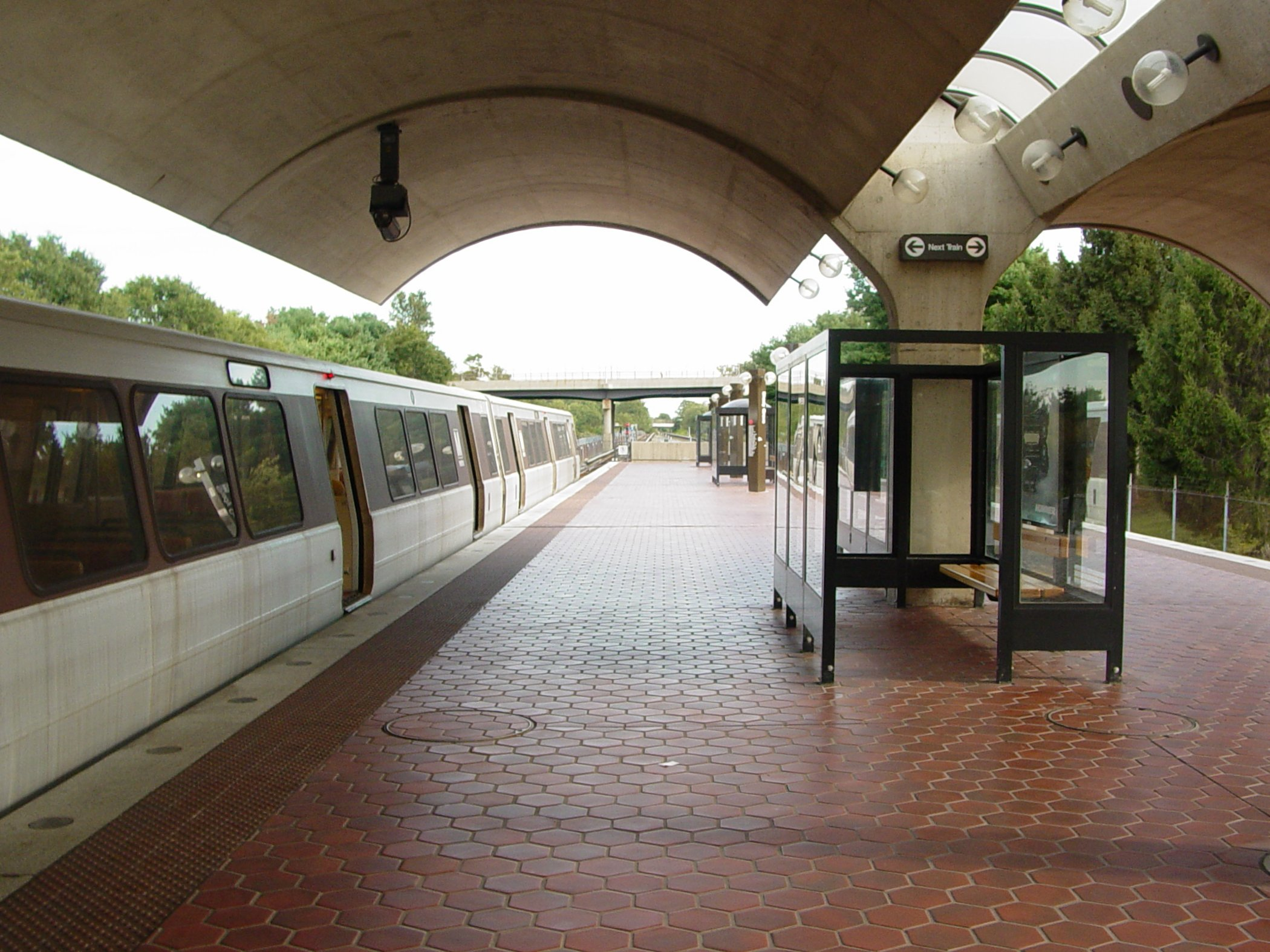 Shady Grove station, western terminus of the Red Line near Gaithersburg, Maryland, in September 2004.